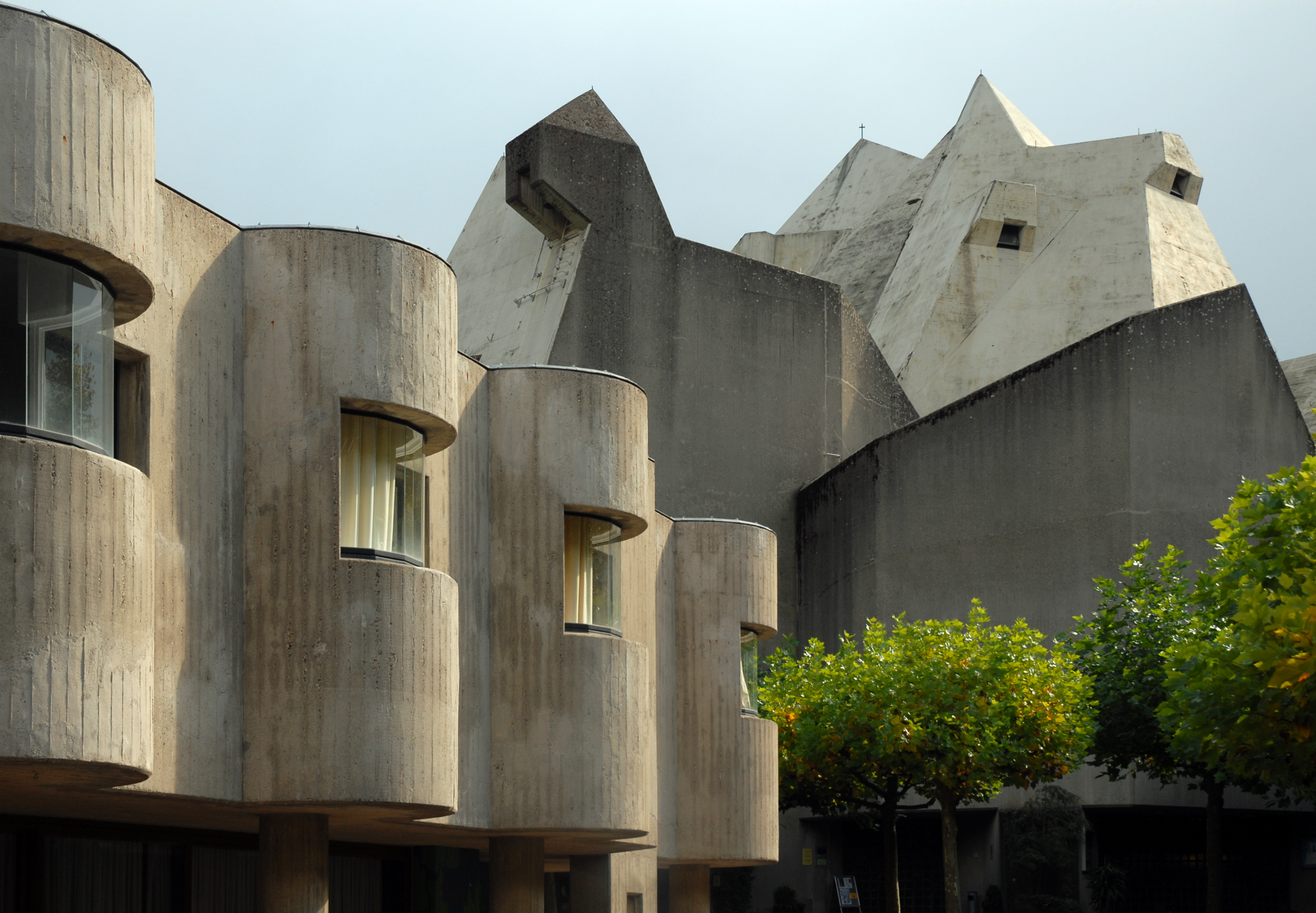 pilgrimage church, maria königin des friedens, neviges, germany 1963-1972. architect: gottfried böhm, b.1920.